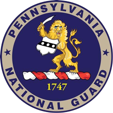 Pennsylvania National Guard seal